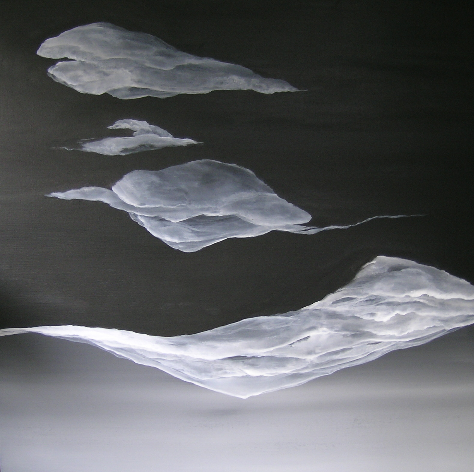 Painting, acrylics on canvas 120 x 120 cm, title Are you any good at keeping secrets. Ingeborg ten Hoopen